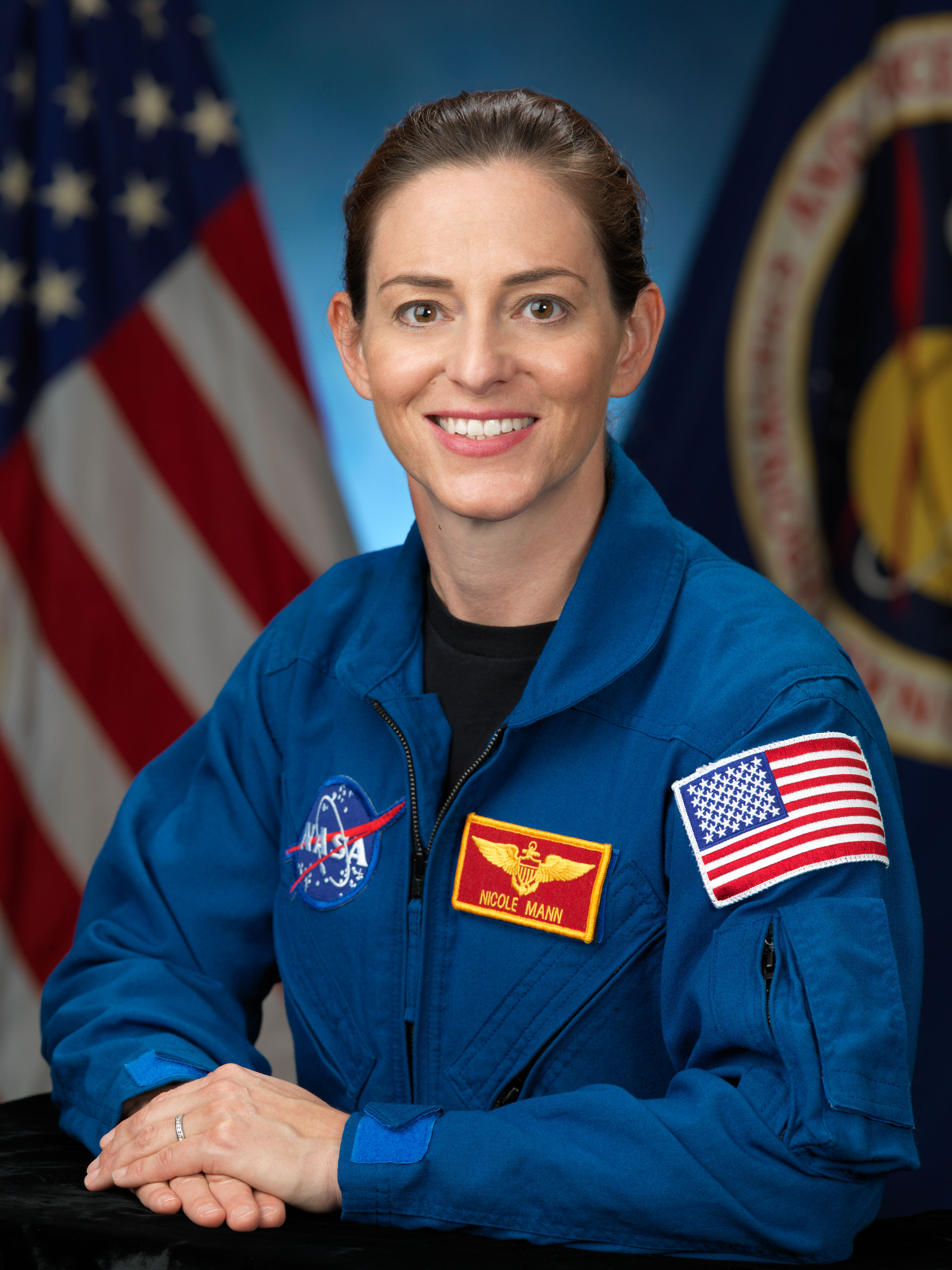 JSC2014-E-007655 (13 Jan. 2014) --- Nicole Aunapu Mann, NASA astronaut candidate class of 2013.